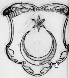 Leliwa Coat of Arms by Ambrosius Marcus de Nissa, about 1572